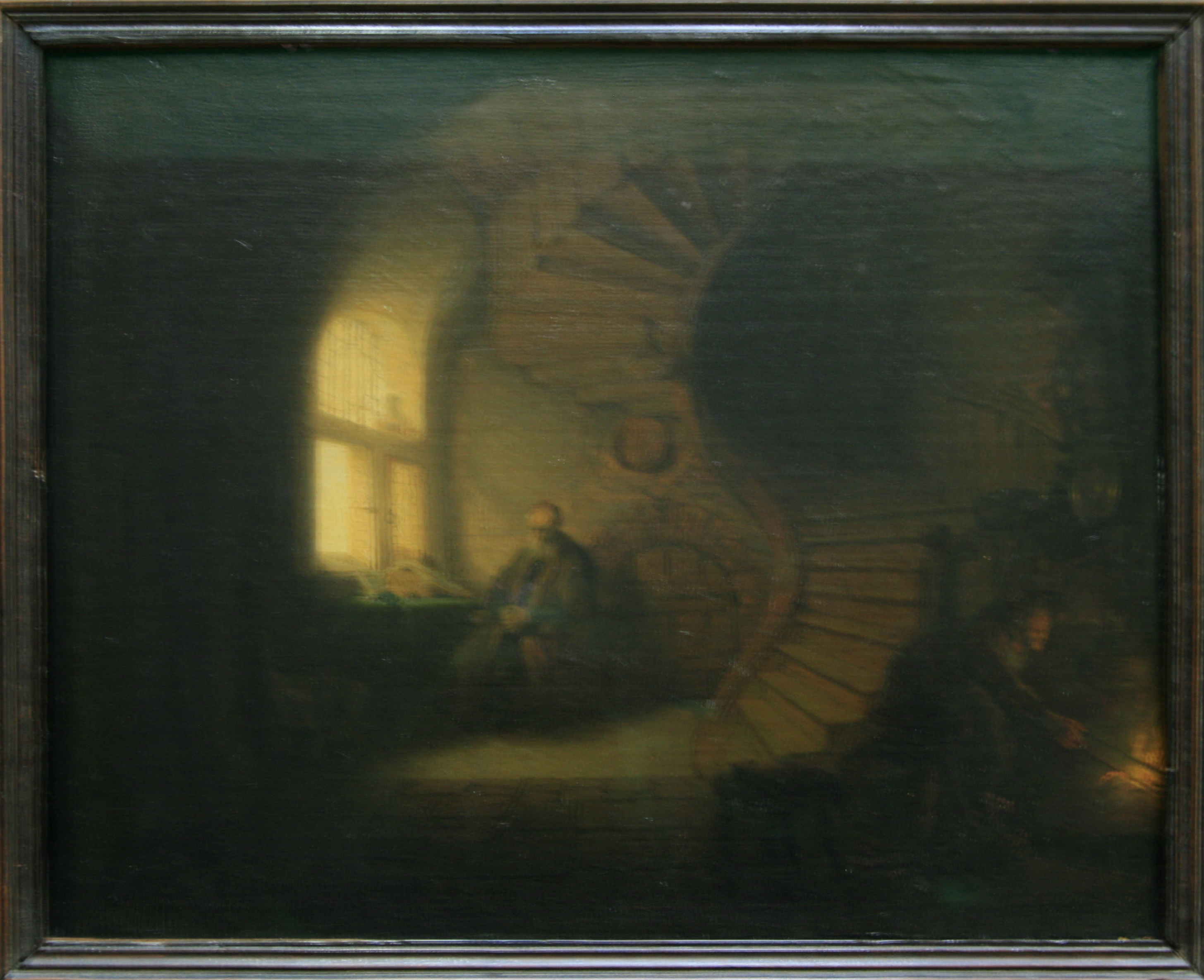 Rembrandt's painting : "Philosopher Meditating", 1632. Exhibited at the Louvre museum, Paris.